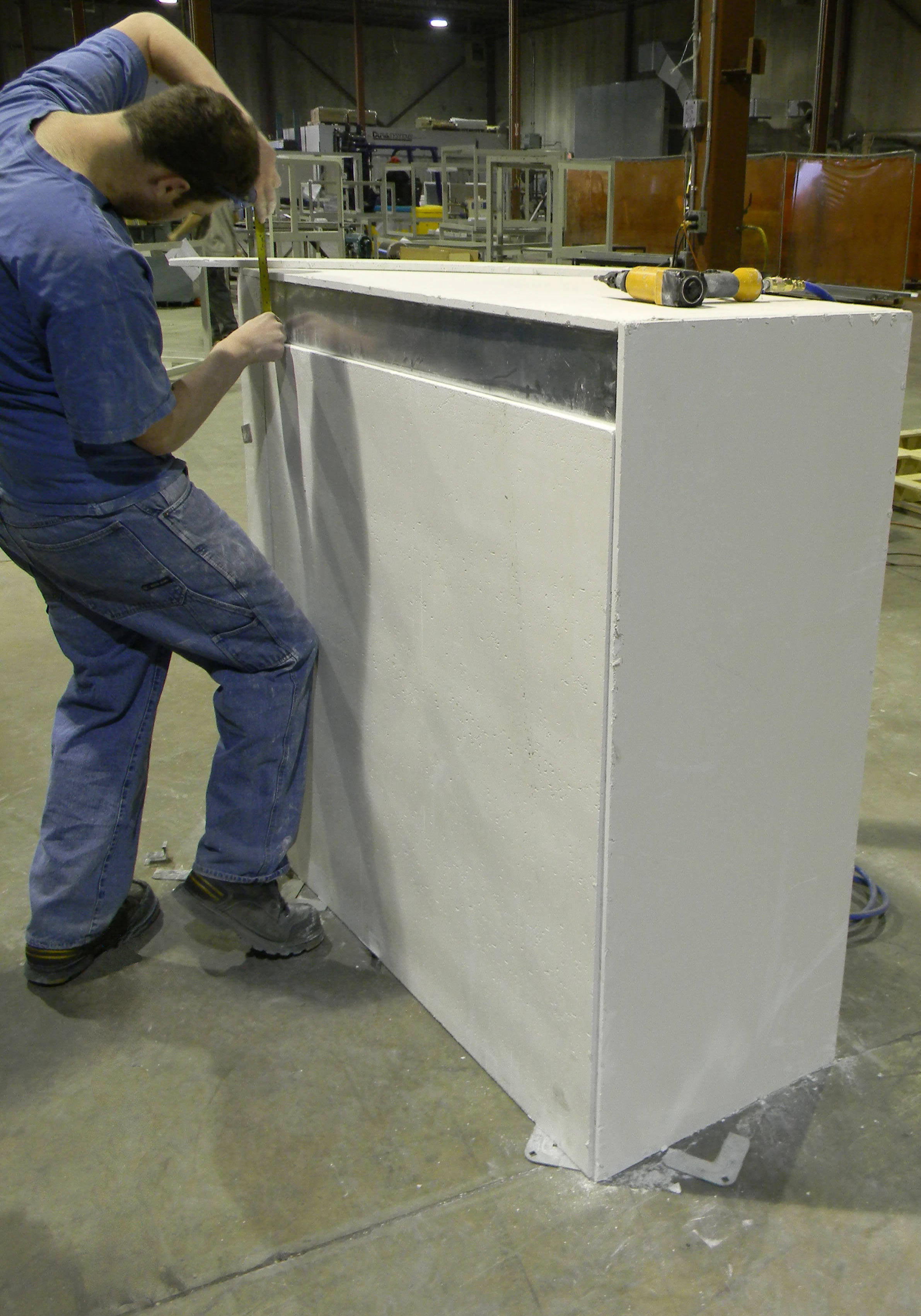 Steel structure being fitted with Promatect 250 calcium silicate passive fire protection board.